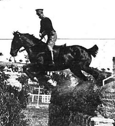 Juan Nepomuceno Suelves Goyeneche, future 10th marques of Tamarit, as teniente de husares, 1910; picture from LA ILUSTRACIÓN ESPAÑOLA Y AMERICANA